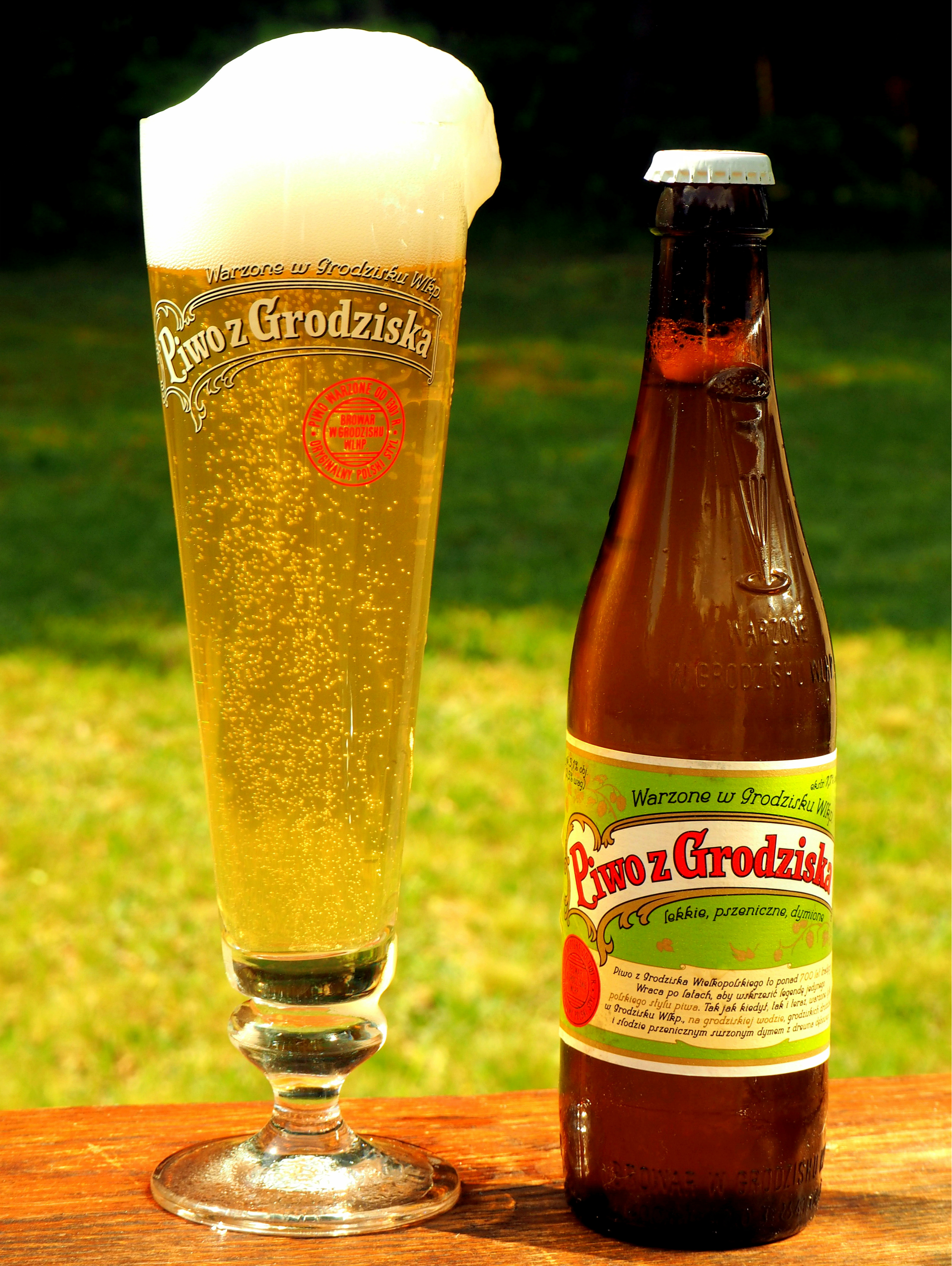 Piwo z Grodziska (Grodzisk beer), in bottle and in glass